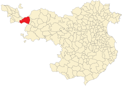 Toses